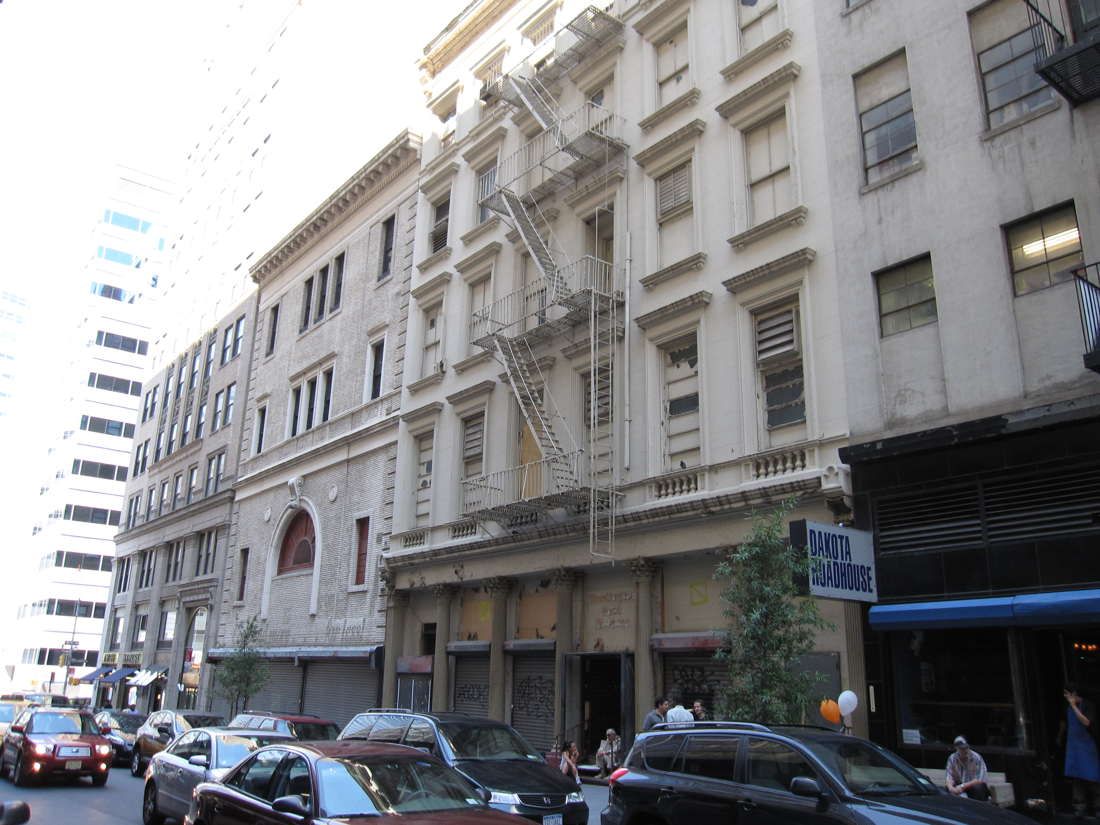 45 Park Place (Manhattan)